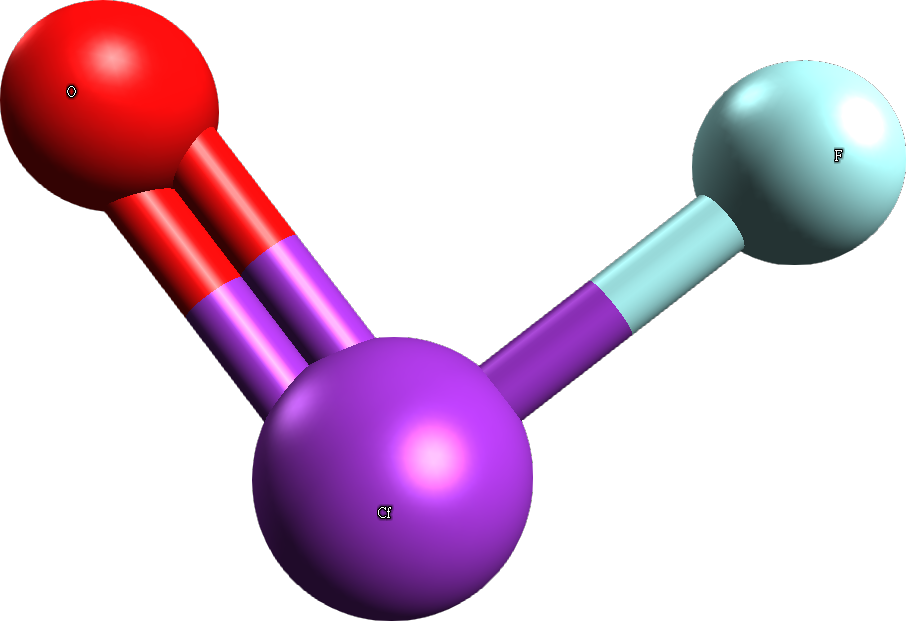 Californium oxyfluoride structure